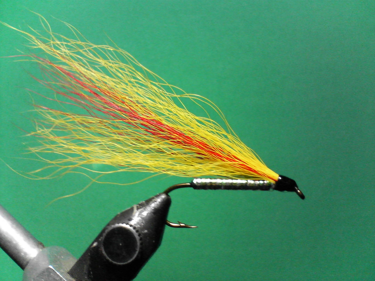 Mickey Finn Streamer tied by Jeremy Acre Mickey Finn Streamer tied by Jeremy Acre